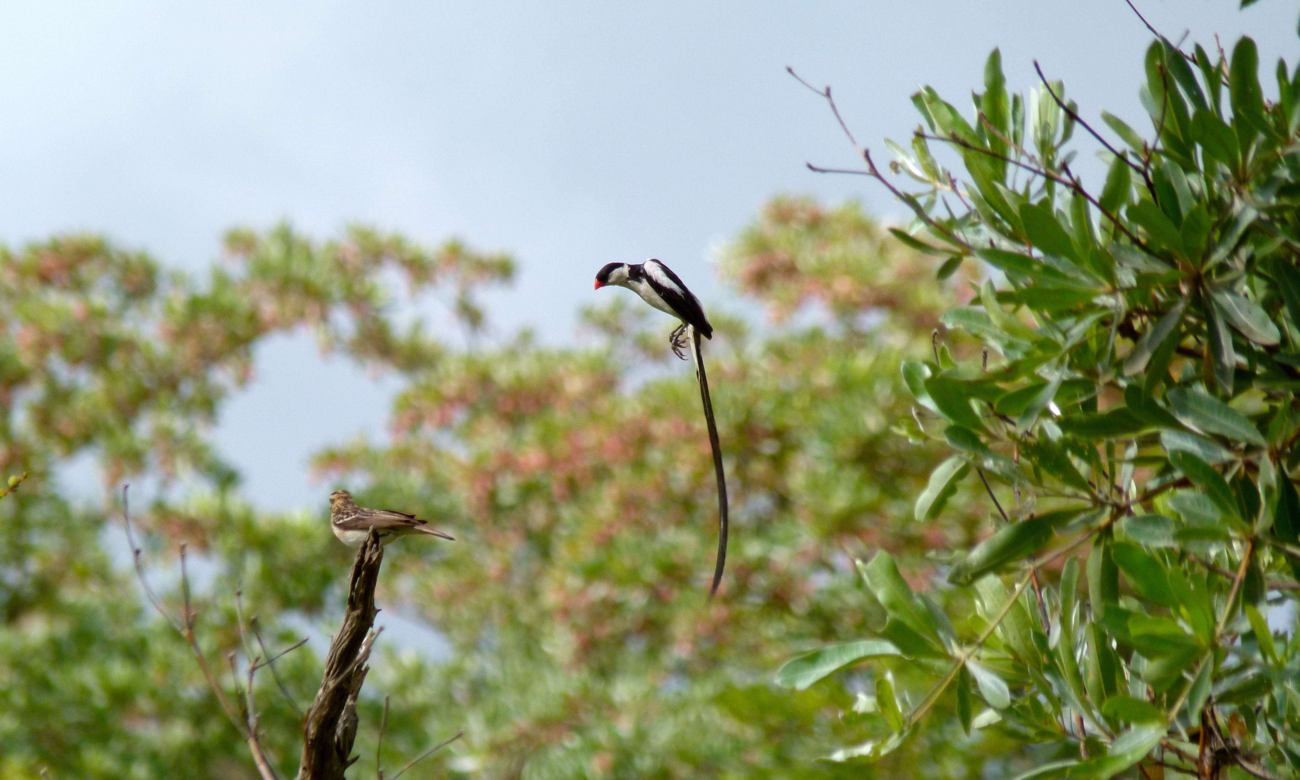 H2-2 North of Afsaal, Kruger NP, SOUTH AFRICA